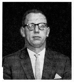 Carter Brown visiting his Finnish publisher Valpas-Mainos in Finland 1964